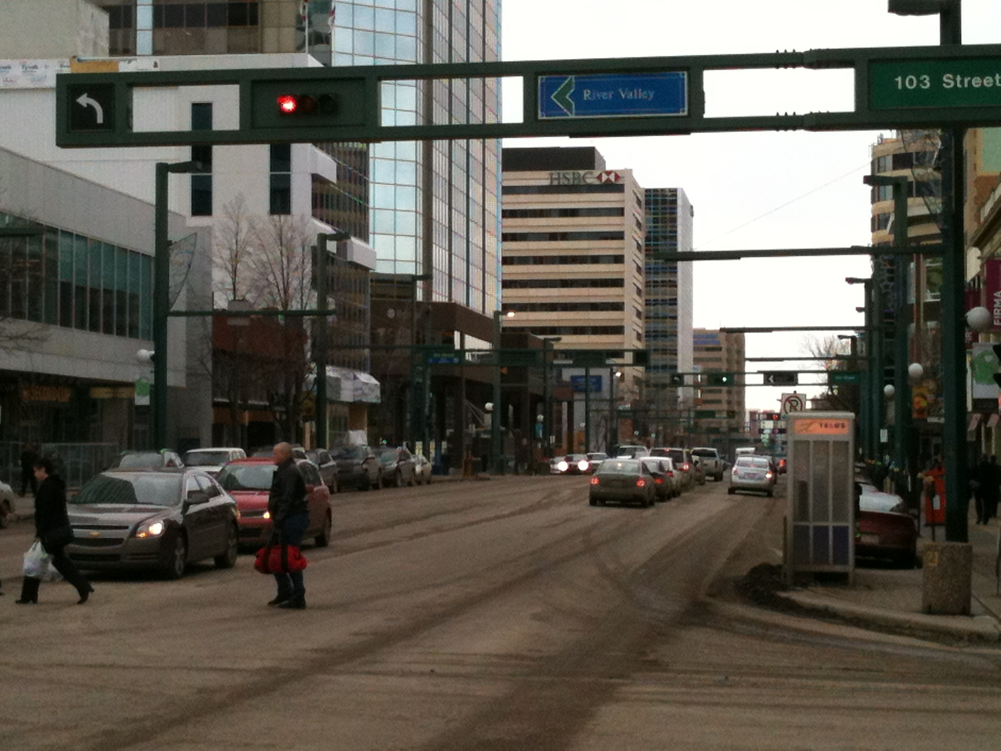 Jasper Avenue in Edmonton, Alberta, looking west from 103 Street.